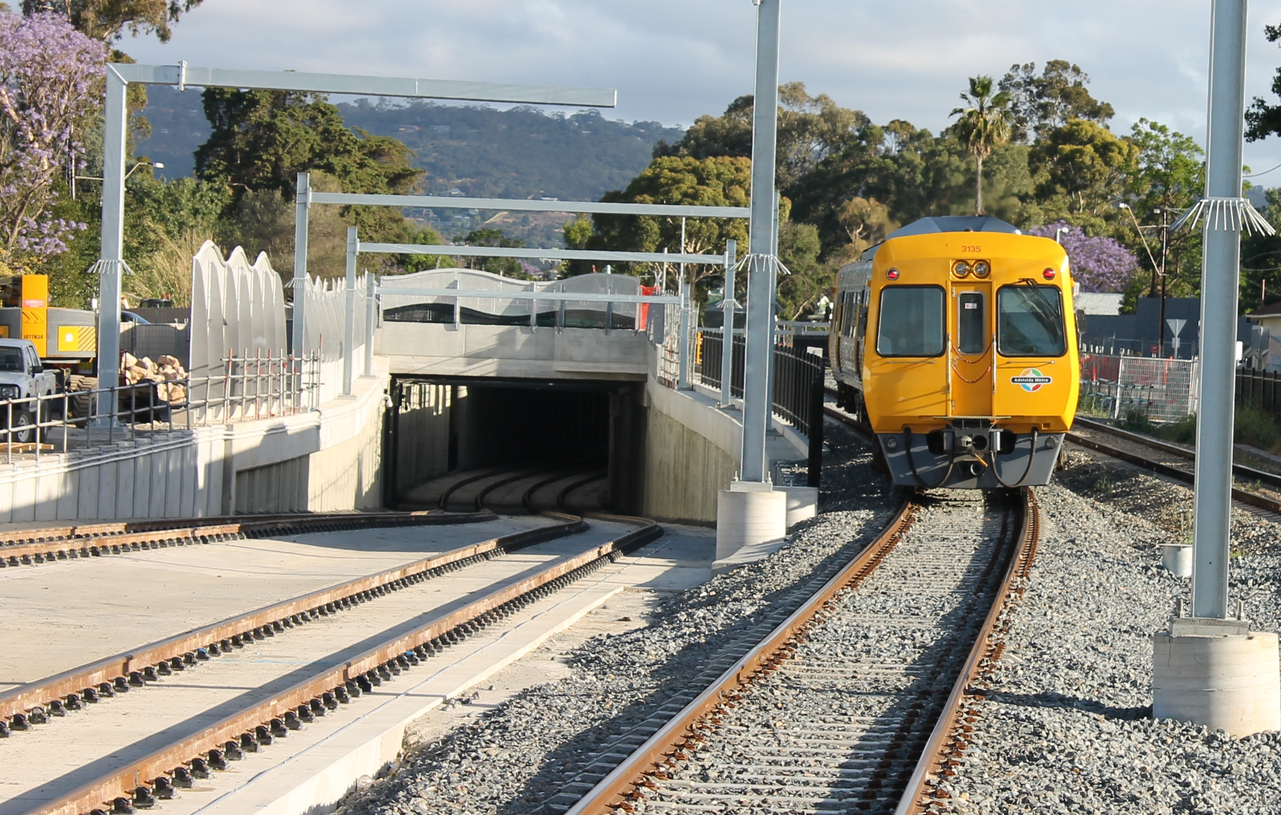 Adelaide Metro Train 3135 (with 3136) running through new Victoria Street crossing (next to Seaford Line underpass)